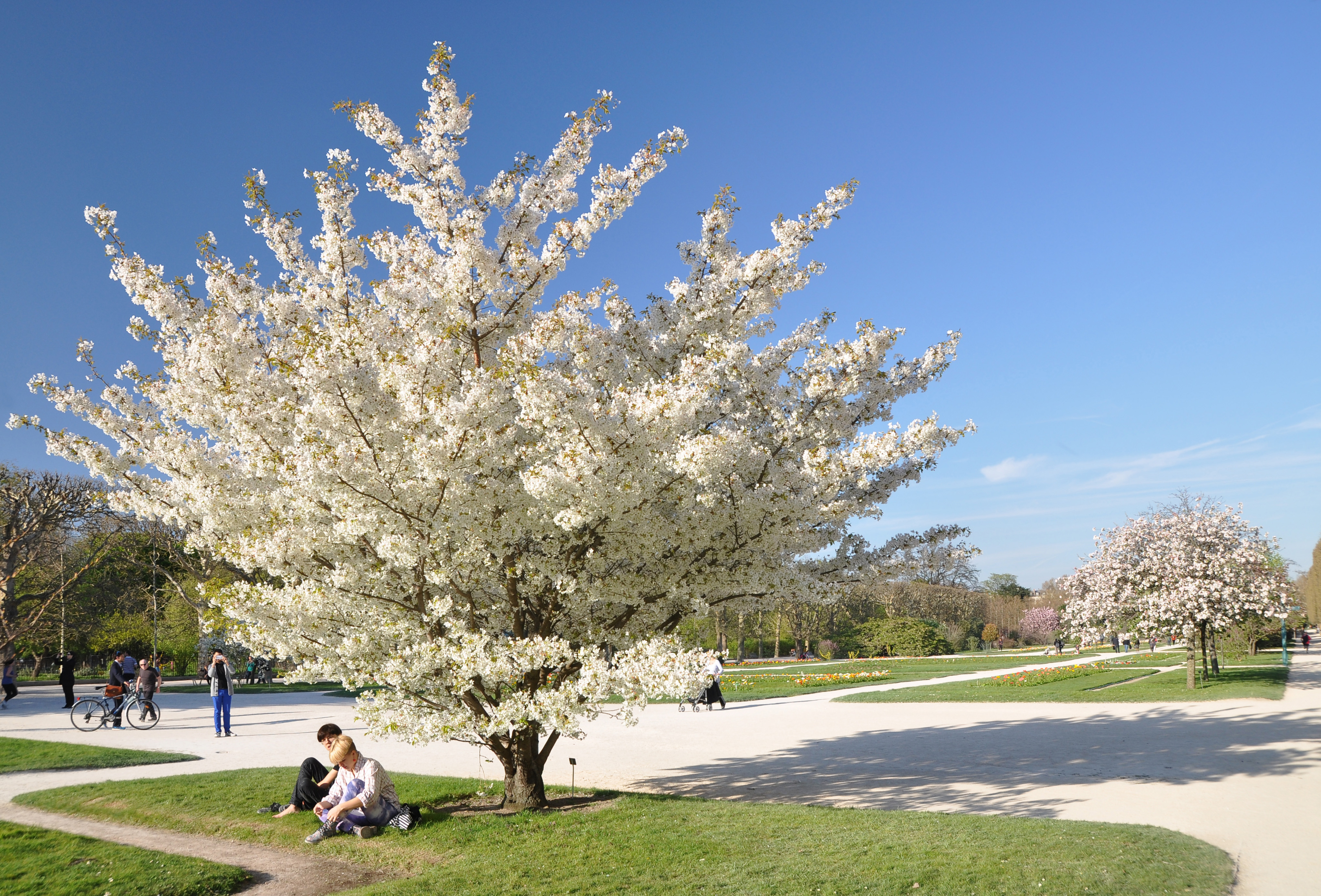 Oshima Cherry Prunus speciosa in the Jardin des Plantes in the 5th arrondissement of Paris.